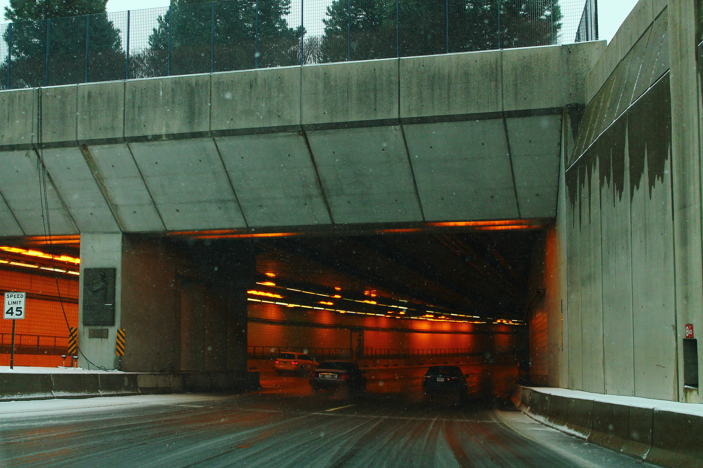 Int90wRoadMA-TedWilliamsTunnelEntrance